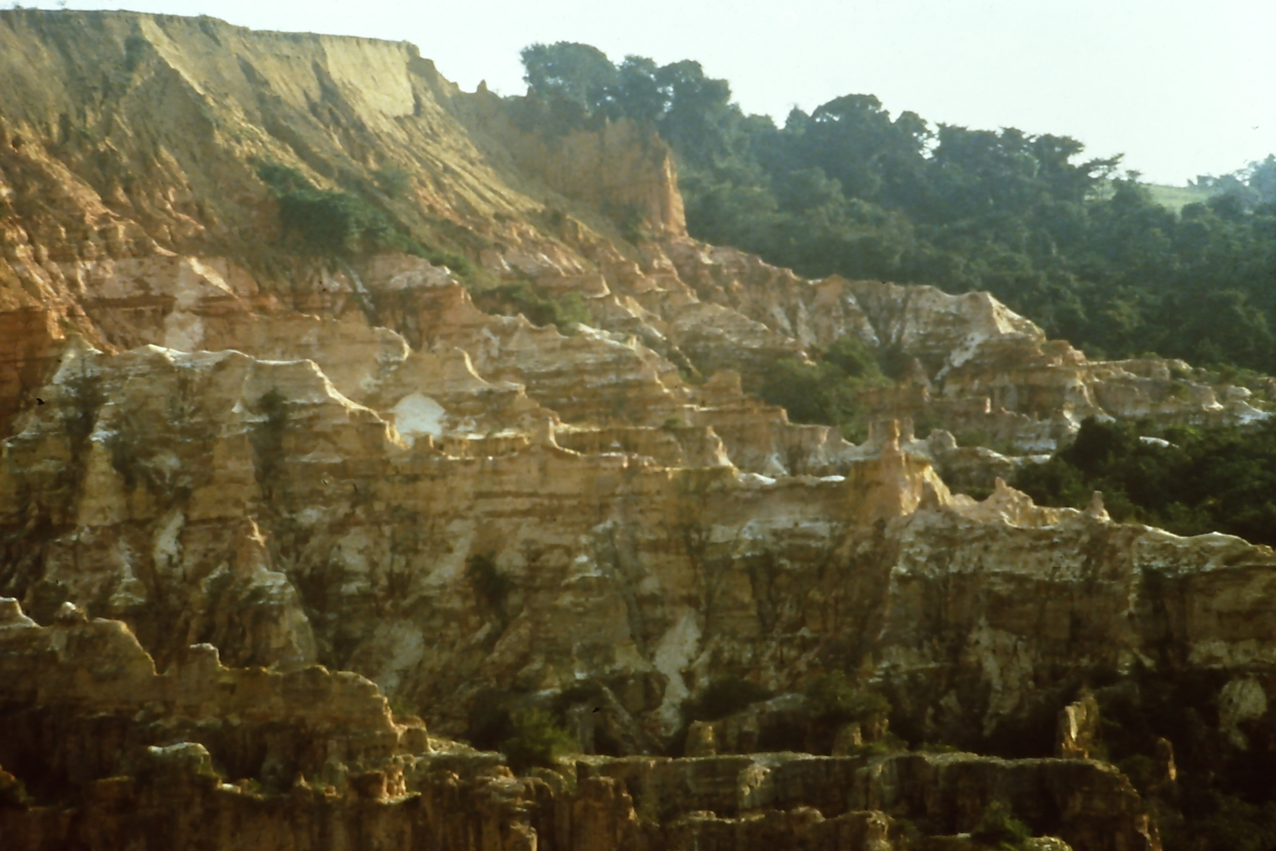 This image was scanned from the original slide by Oceanflynn.